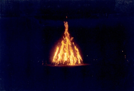 Casera che brucia